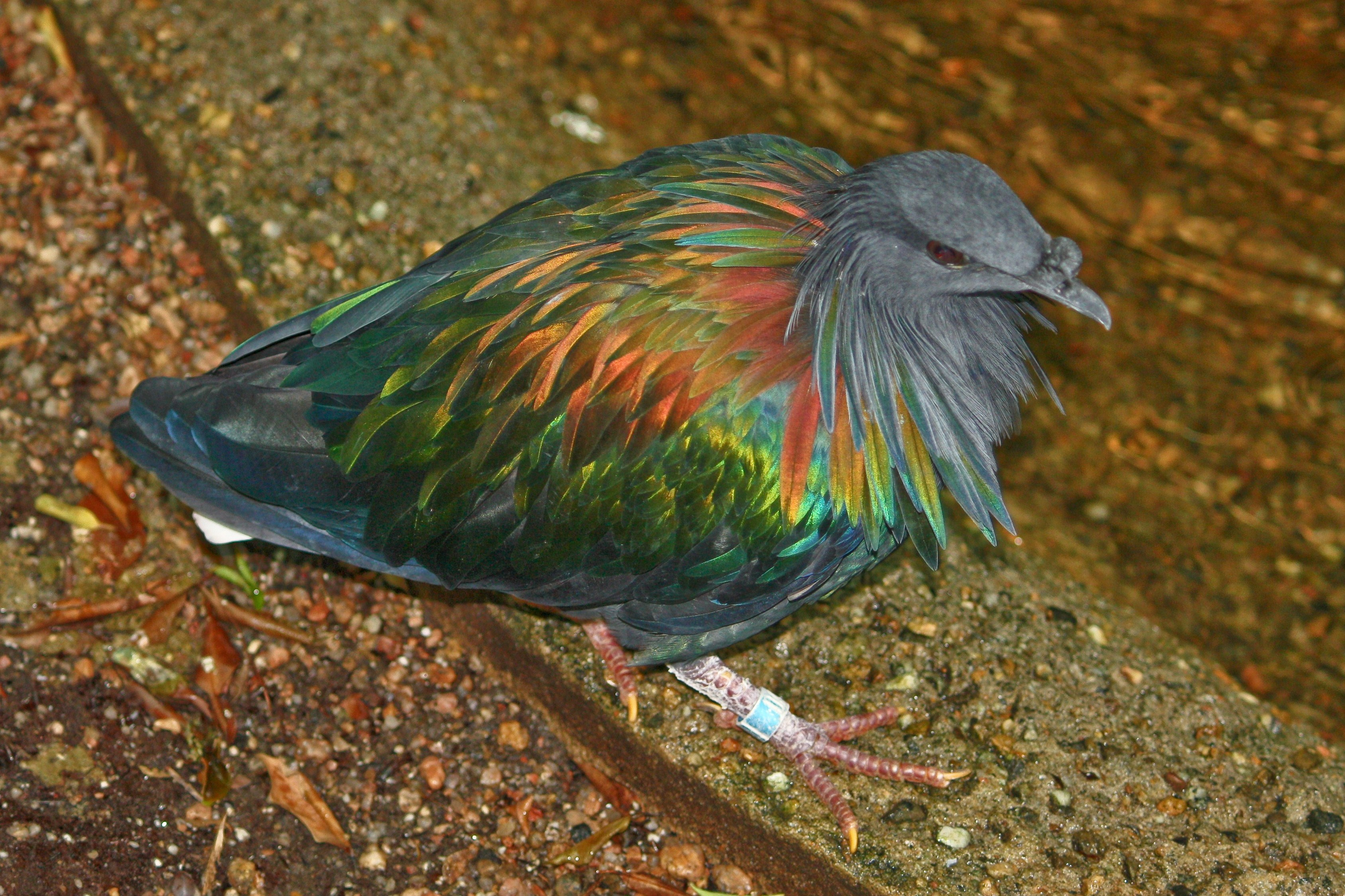 Nicobar Pigeon (Caloenas nicobarica). Denver Zoo, Denver, Colorado.